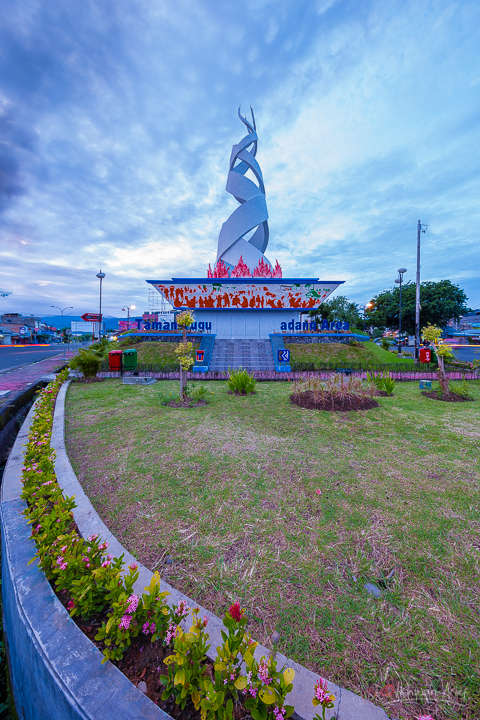 Padang Area Monument